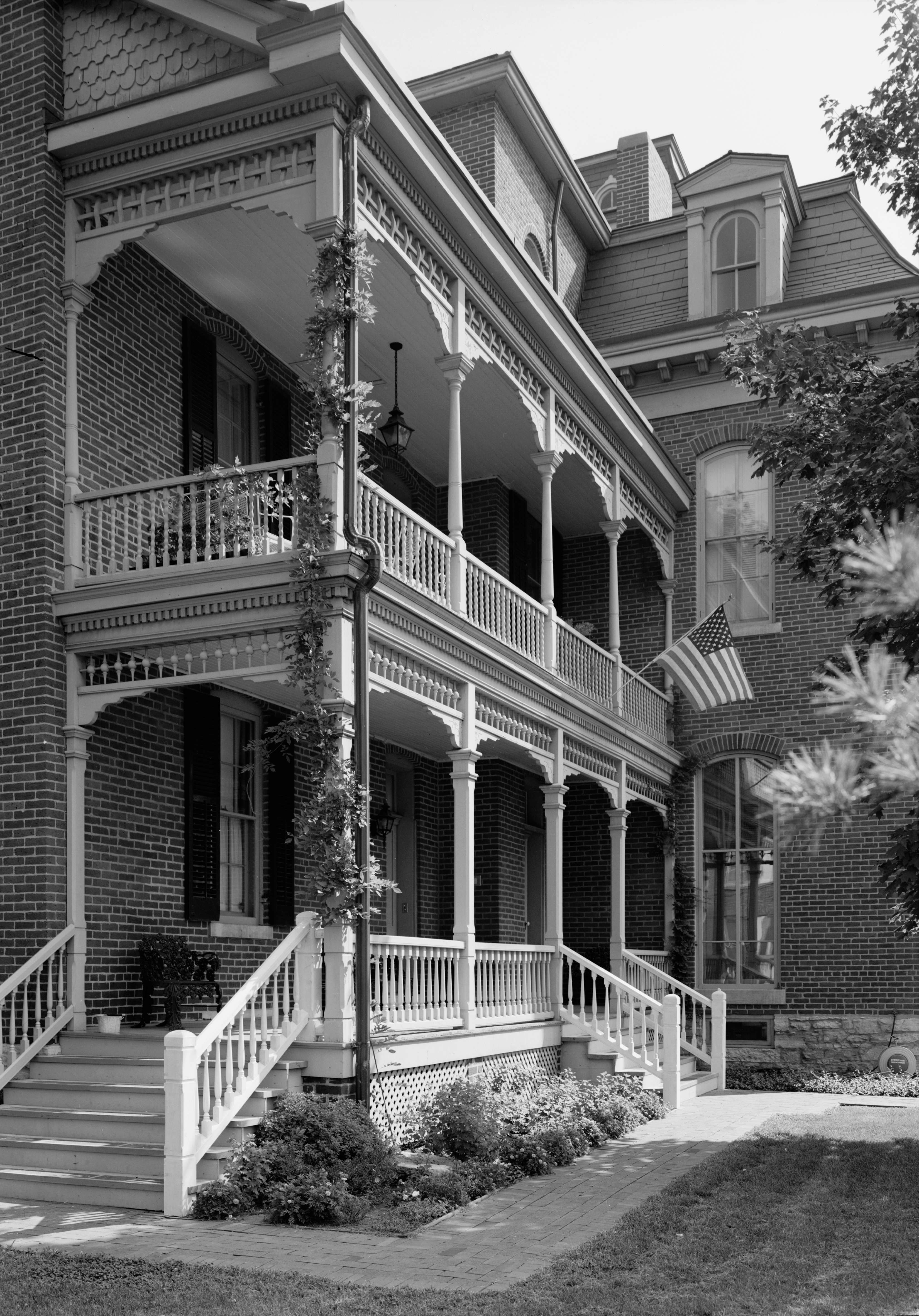 Morris-Butler House — 1204 North Park Avenue, Indianapolis, Marion County, Indiana — south porch, from west. 1970 image from the HABS—Historic American Buildings Survey of Indiana.